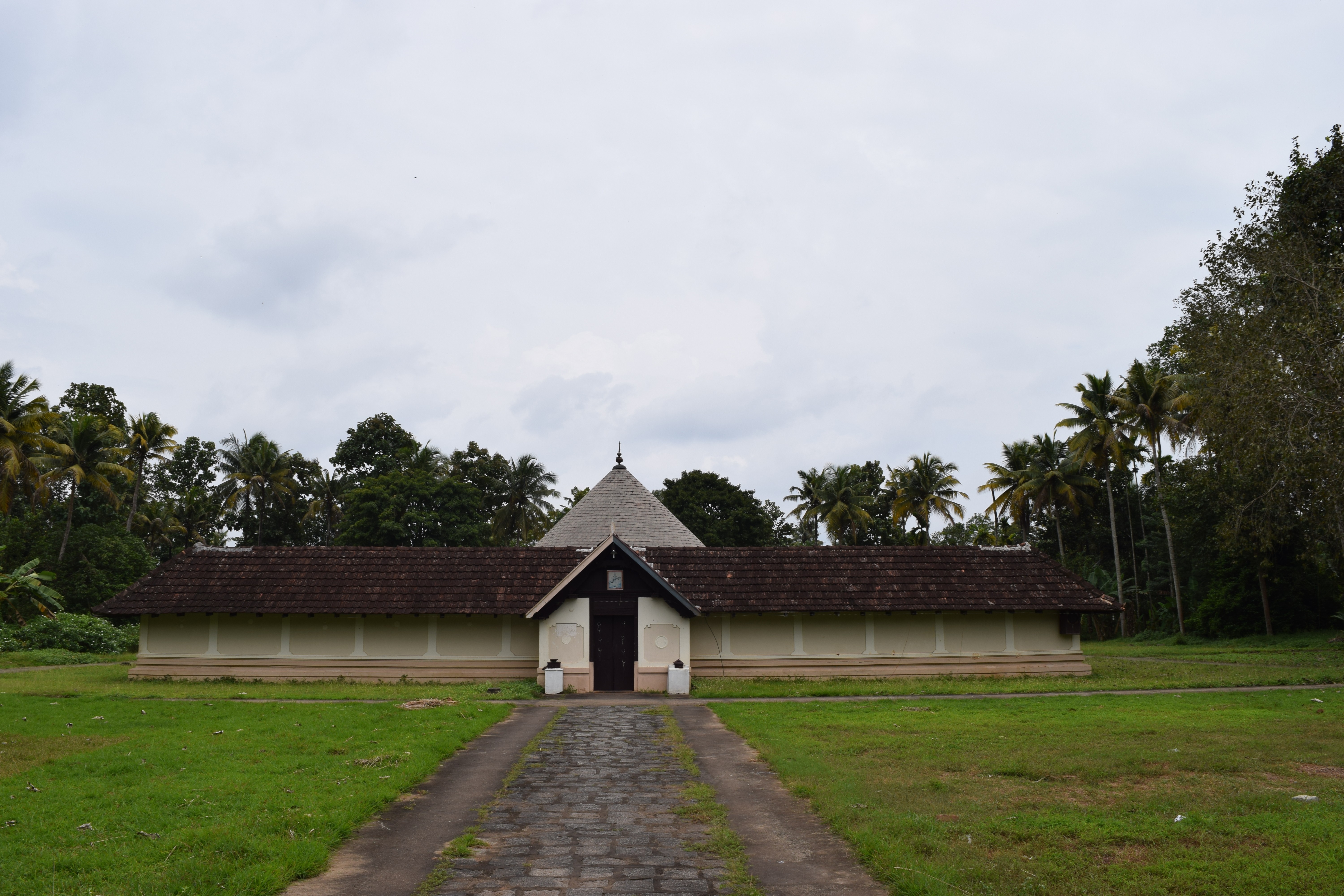 Thirunayathode Siva Narayana Temple located at Nayathod, 3kms from Cochin International Airport in Ernakulam District, Kerala, India